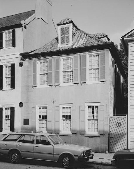 76 Church Street (House), Charleston, Charleston County, SC (Cropped)